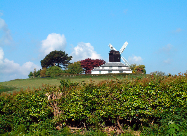 Photograph of Hogg Hill Mill, Icklesham